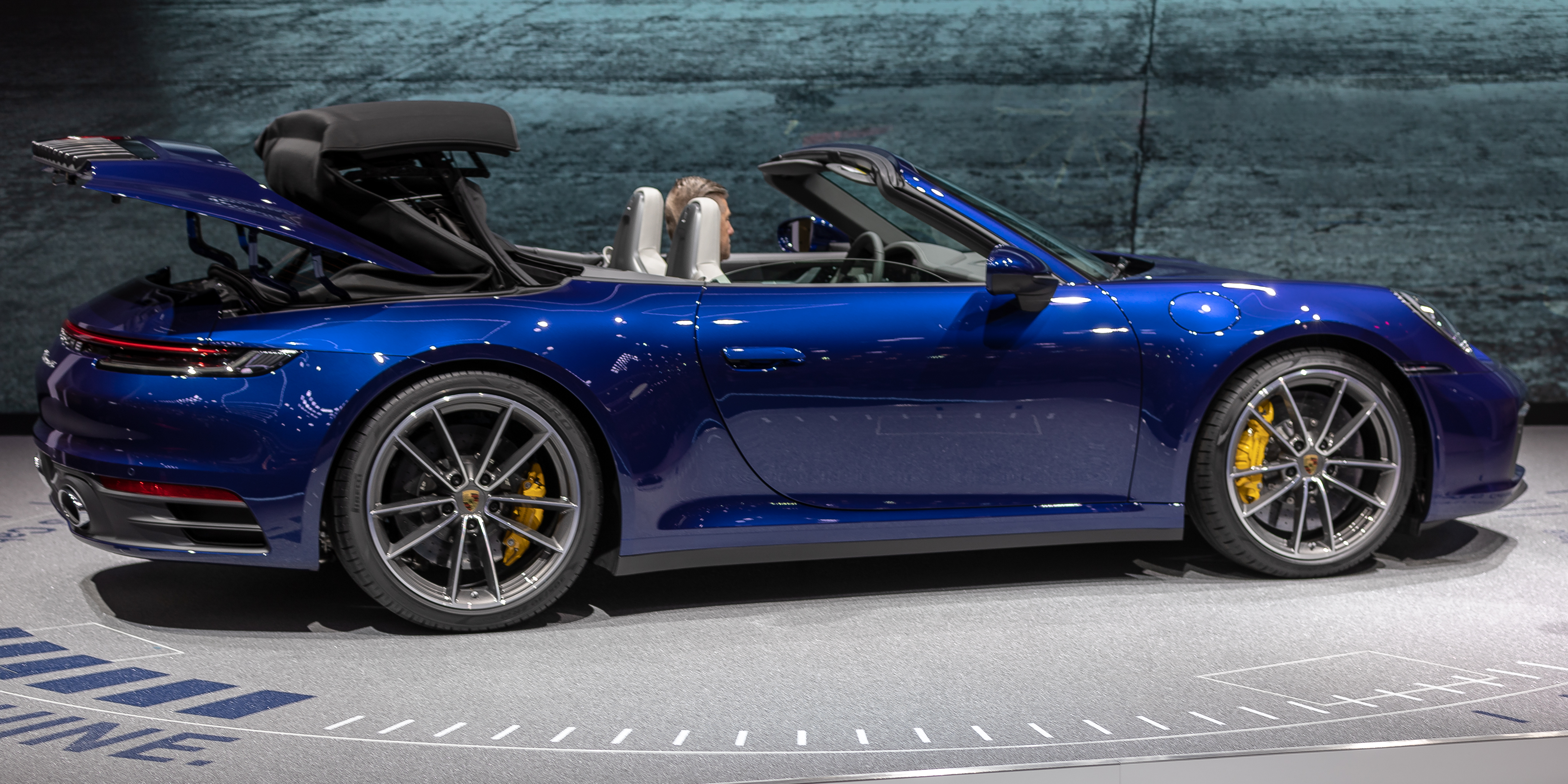 Porsche 911 Carrera 4S Cabrio at Geneva International Motor Show 2019